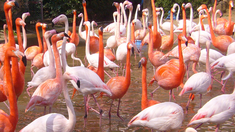 European Greater Flamingo, American Greater Flamingo in the Kobe Oji Zoo, Kobe